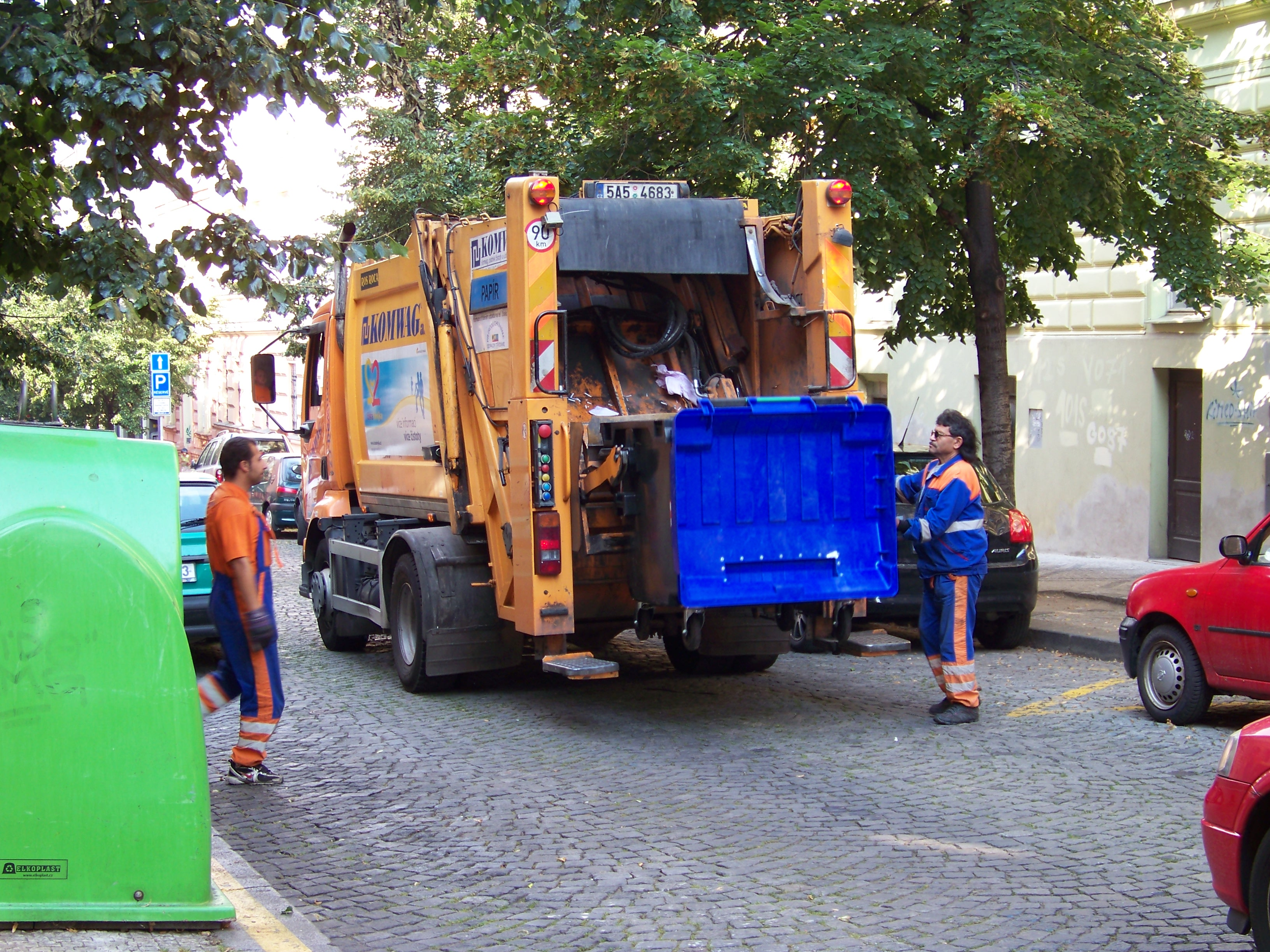 Vinohrady, Prague, the Czech Republic. Jana Masaryka street. Waste paper collection truck.